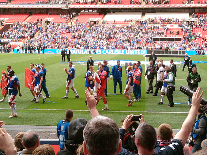 The Carlisle United team thank their fans after winning the 2011 FA League Trophy at Wembley Stadium.